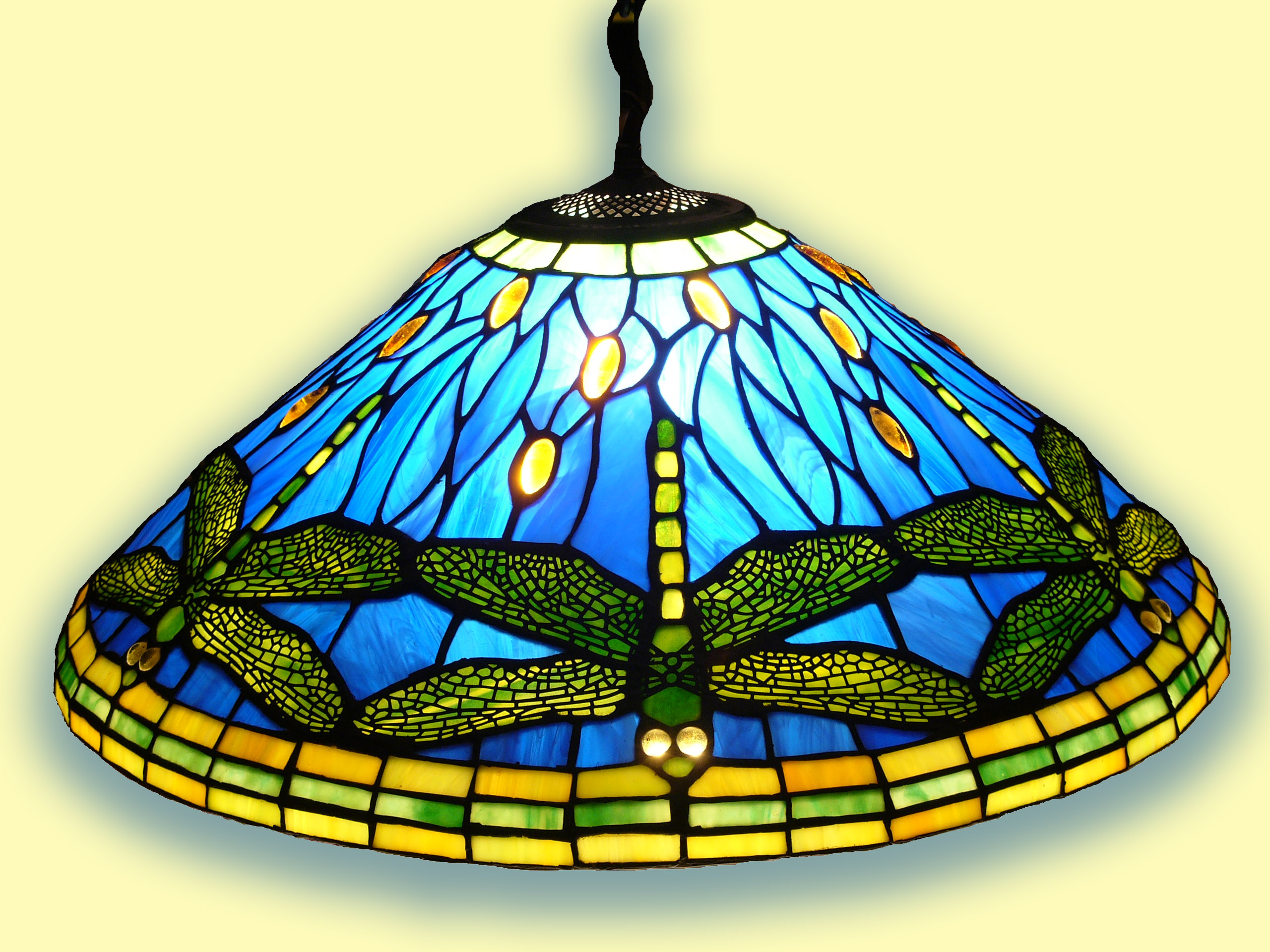 pendant Dragonfly - replica from the lamp by Louis Comfort Tiffany (50 cm diameter, 20 cm hight, about 400 glass pieces)